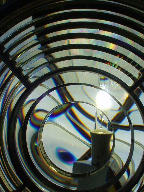 A lens at St. Catherine's Lighthouse, I.o.W. One of the lenses at St. Catherine's Lighthouse, Isle of Wight.